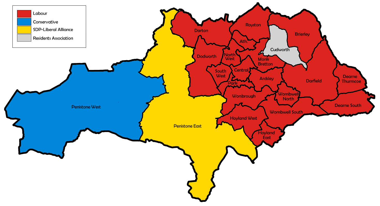 Ward map of Barnsley council with political colouring for the 1982 election.